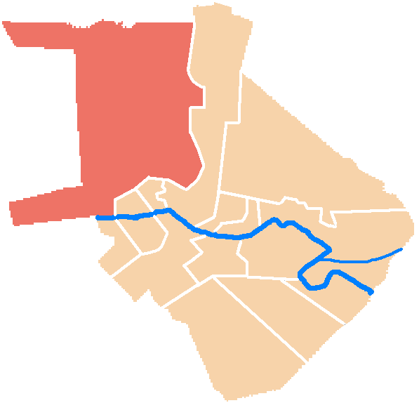 Location of the Tondo district within Manila.